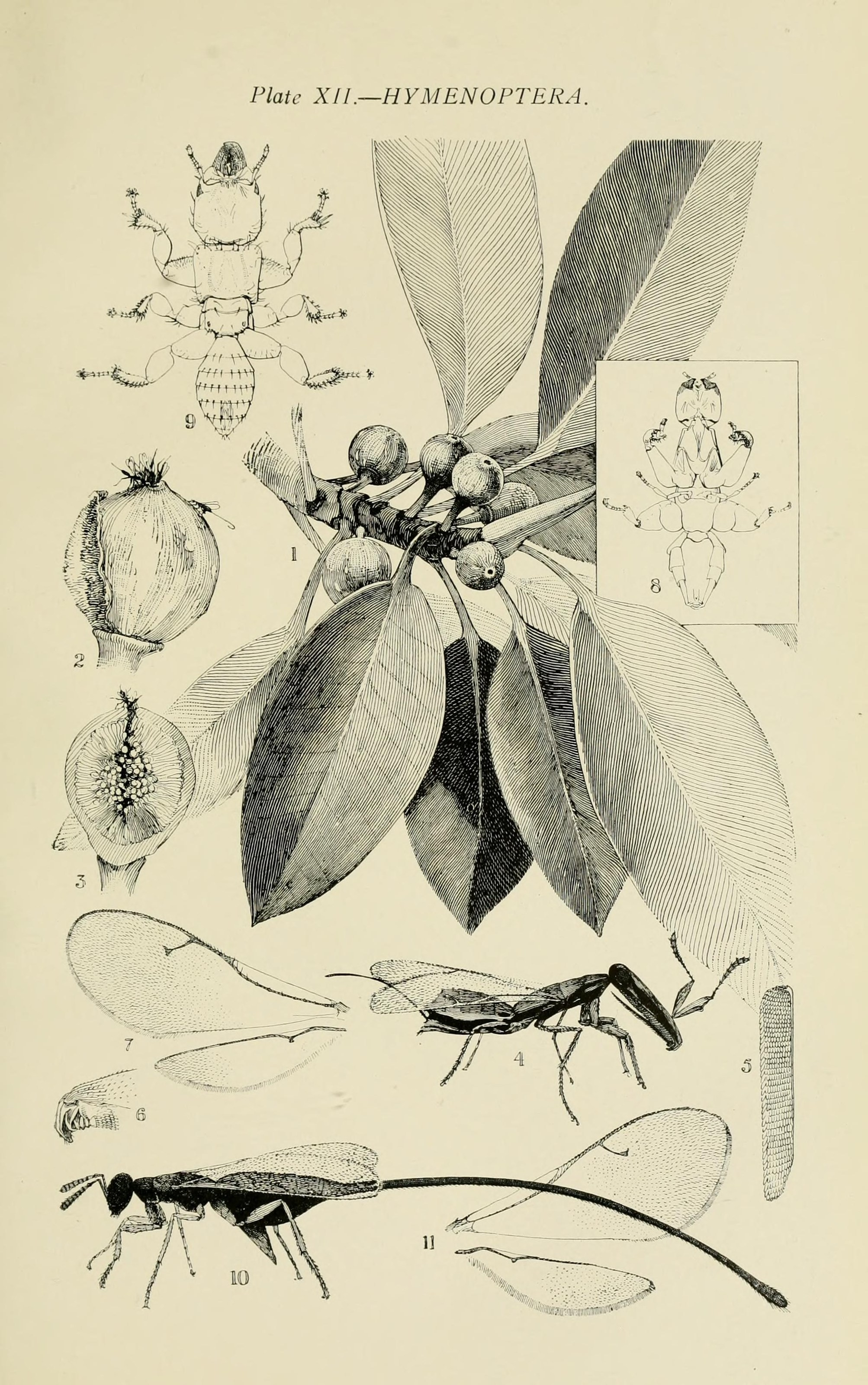 PLATE XII. — HYMENOPTERA. Family Chalcididae. 1. Branch of Moreton Bay Fig (Ficus macrophylla). 2. Immature fig attacked by Pleistodontes froggatti (Mayr), which are cutting their way into the fig. A female Idarnes australis on the right-hand side of the fig. 3. Section of fig, showing insects in the centre. 4. Pleistodontes froggatti (Mayr). ♀️. 5. Cutting plate (mandibular appendage) used by the insect to cut into the fig. 6. Point of head, showing beak-like extremity, and the base of the mandibular appendage where attached to the head. 7. Wings of Pleistodontes froggatti (Mayr). 8. Pleistodontes froggatti (Mayr). ♂. 9. Idarnes australis (Froggatt). ♂. 10. Idarnes australis (Froggatt). ♀️. 11. Idarnes australis (Froggatt), wings.